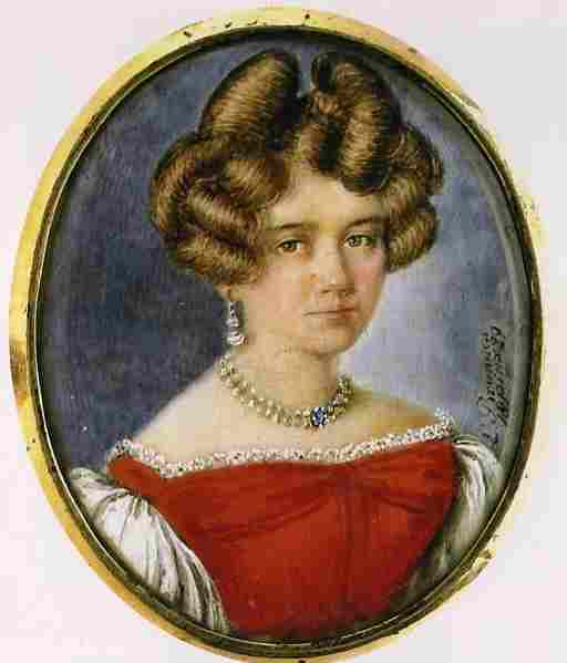 Aleksandra Tchaikovskaya (1812–1854) From an original portrait hanging in the Klin House-Museum